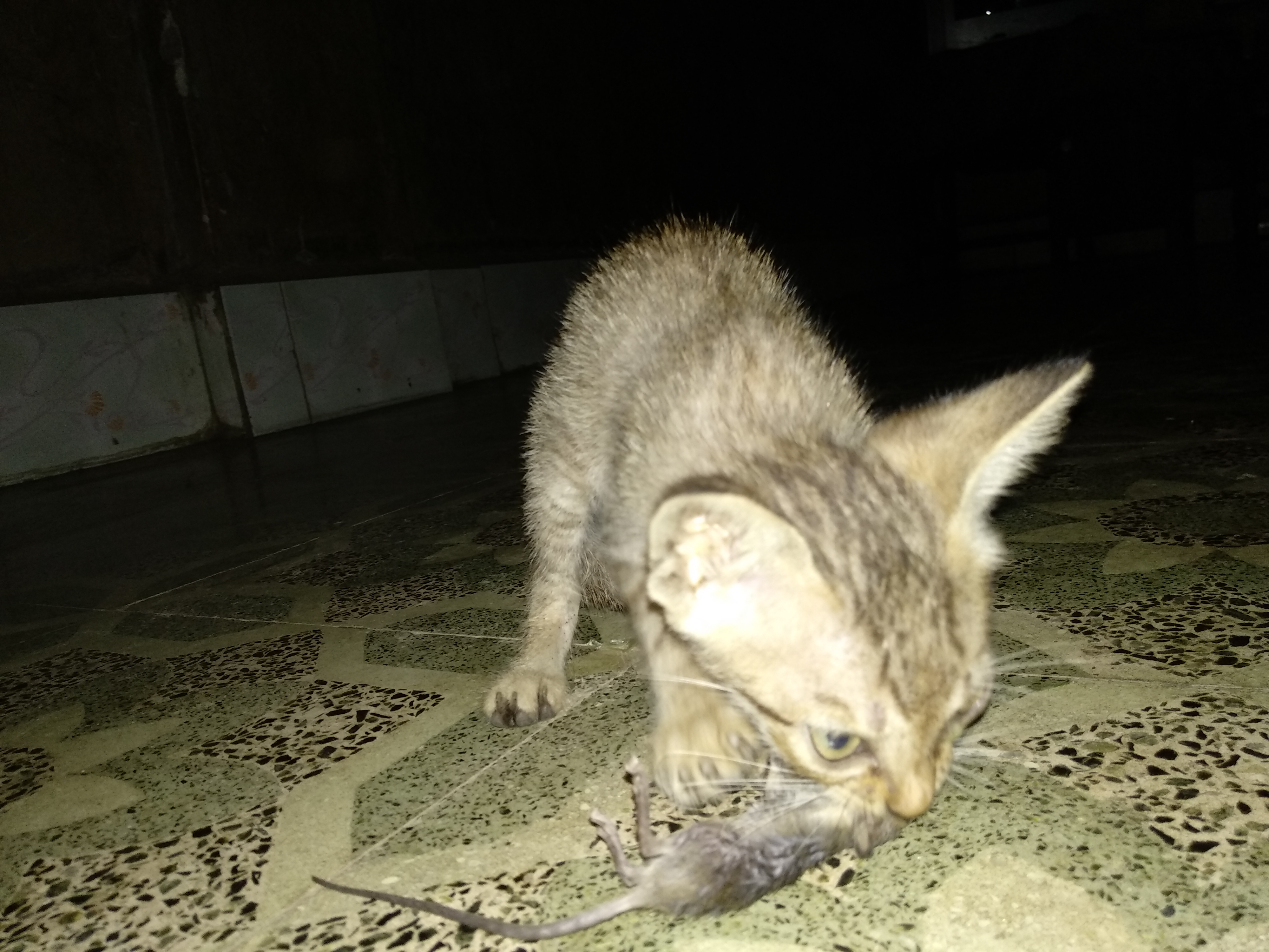 cat eating mouse